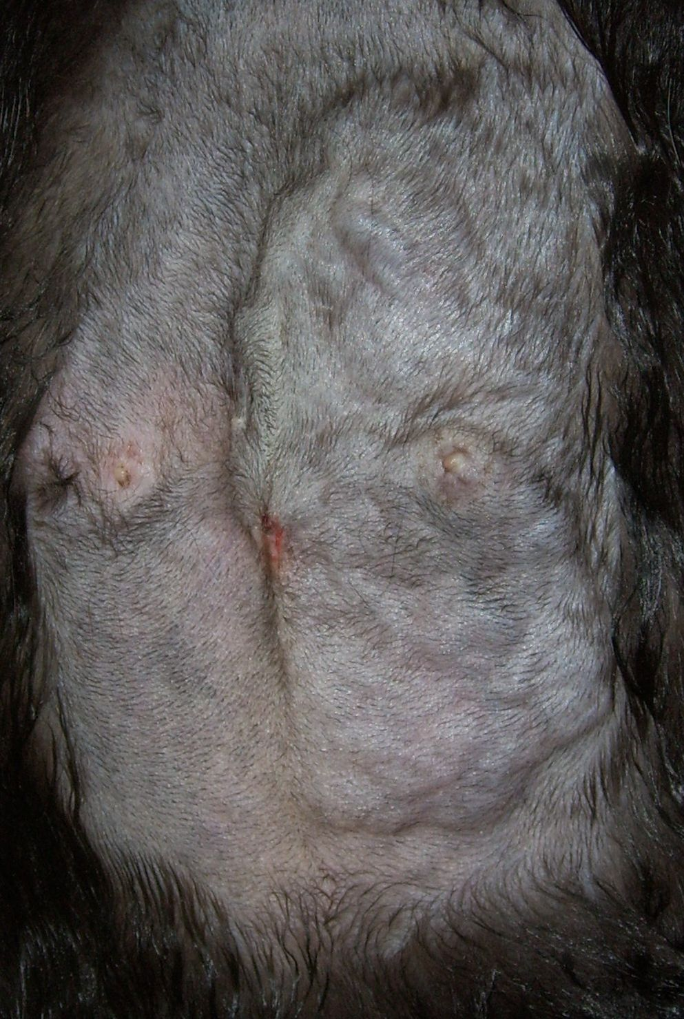 Fibroadenomatosis in a cat